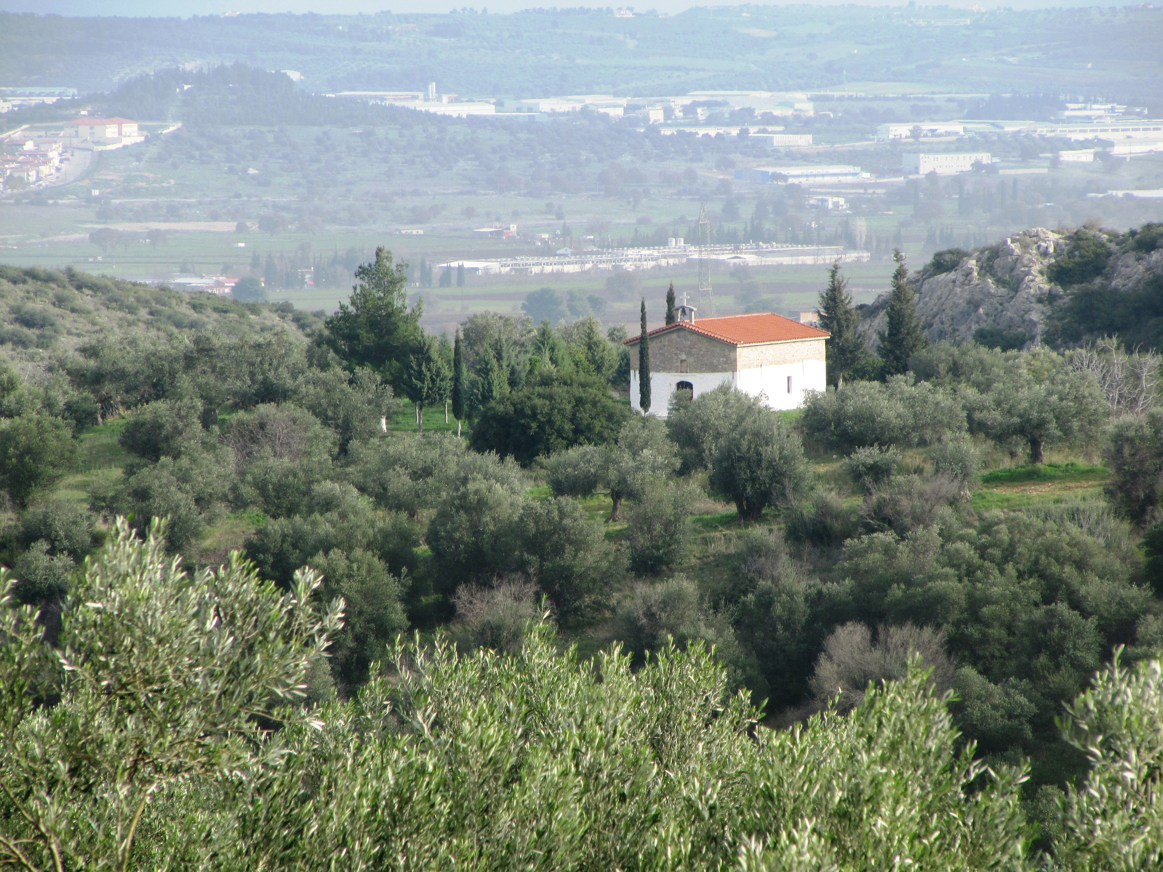 Prophet Helias Chapel at Ayios Thomas Viotias Village. The photo was taken from Saint Nikolaus chapel.